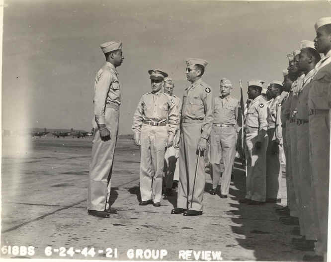 This is an official United States Army Air Forces photo of Colonel Robert R. Selway, Jr., reviewing the 618th Bomber Squadron at the Atterbury Army Air Field in Indiana on June 24, 1944. The Tuskegee Airman that Colonel Selway is facing is Hubert L. Jones, Class P43H. In 1945, Colonel Selway segregated the black and white officers' clubs at Freeman Field near Seymour, leading to a protest by black officers of the 477th Bombardment Group (Medium) known as the Freeman Field Mutiny. The original of this image may be viewed at [1].